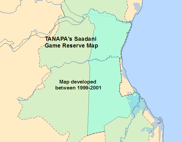 Tanapa's map of the SGR created between 1999 and 2001. In this map Saadani's prime village lands are included as part of the former reserve